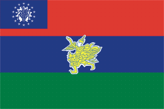 Outdated (?) version of the flag of Kayah State (probably in use before 2010). The current version does not have a blue canton with gear and rice plant, see File:Flag of Kayah State.svg